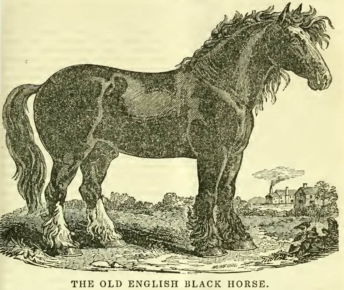 Old English Black Horse in The Farmers' Cabinet, and American Herd-book, Kimber & Sharpless, 1841, p. 145. Sire, this horse, is one of the most valued among the Bakewell's horses.